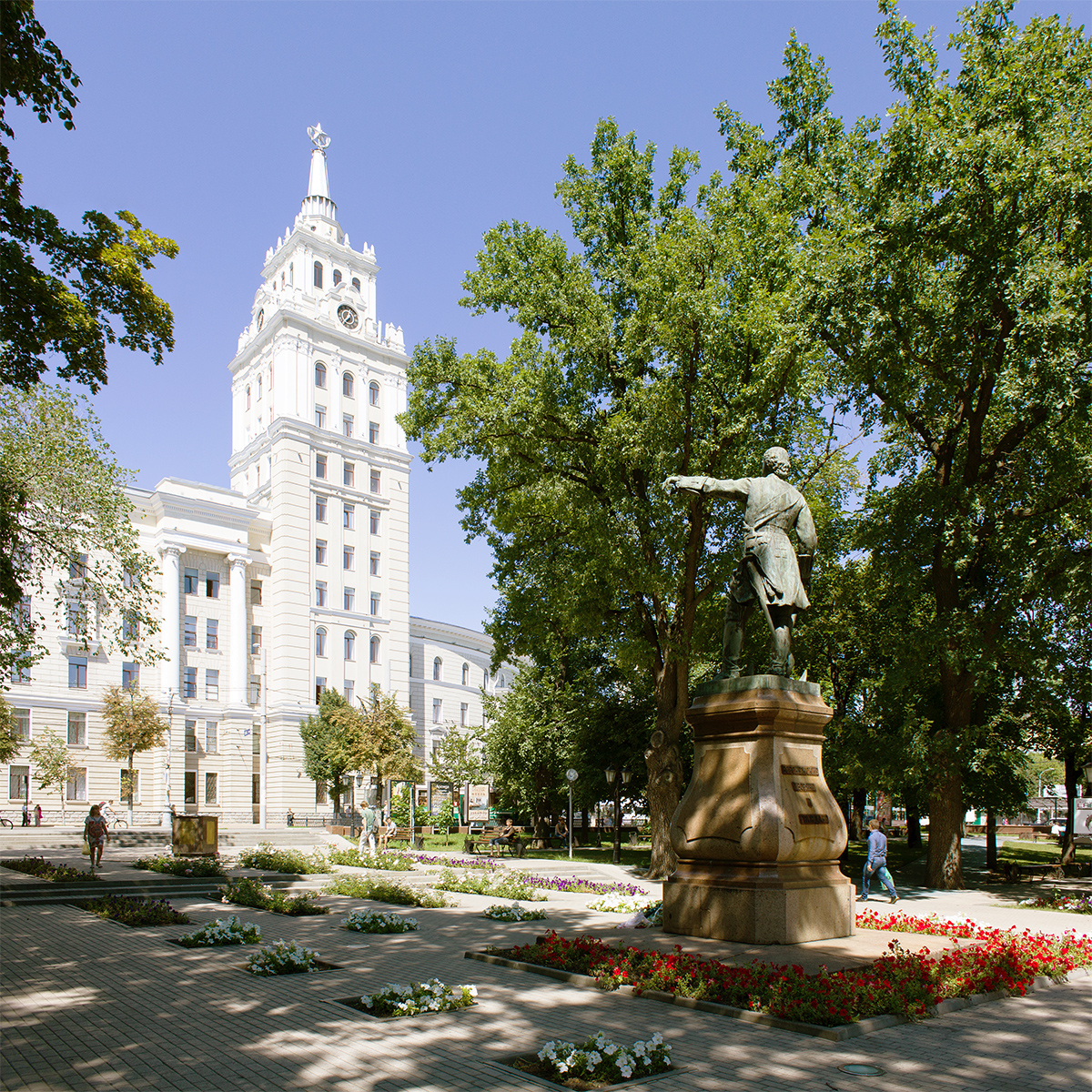 Headquarter of South Eastern Railway and monument to Peter I